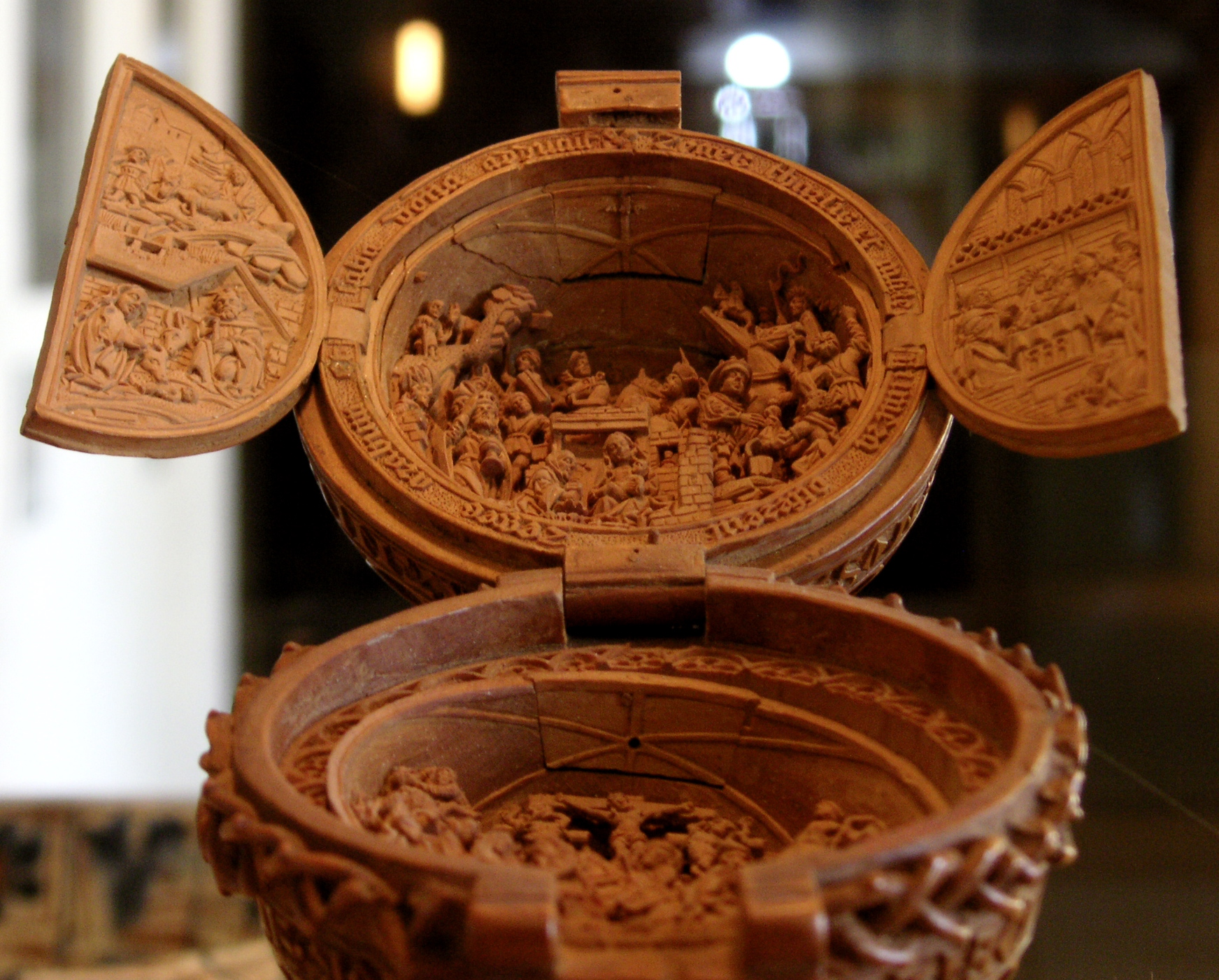 A rosary bead (German: „Betnuss“